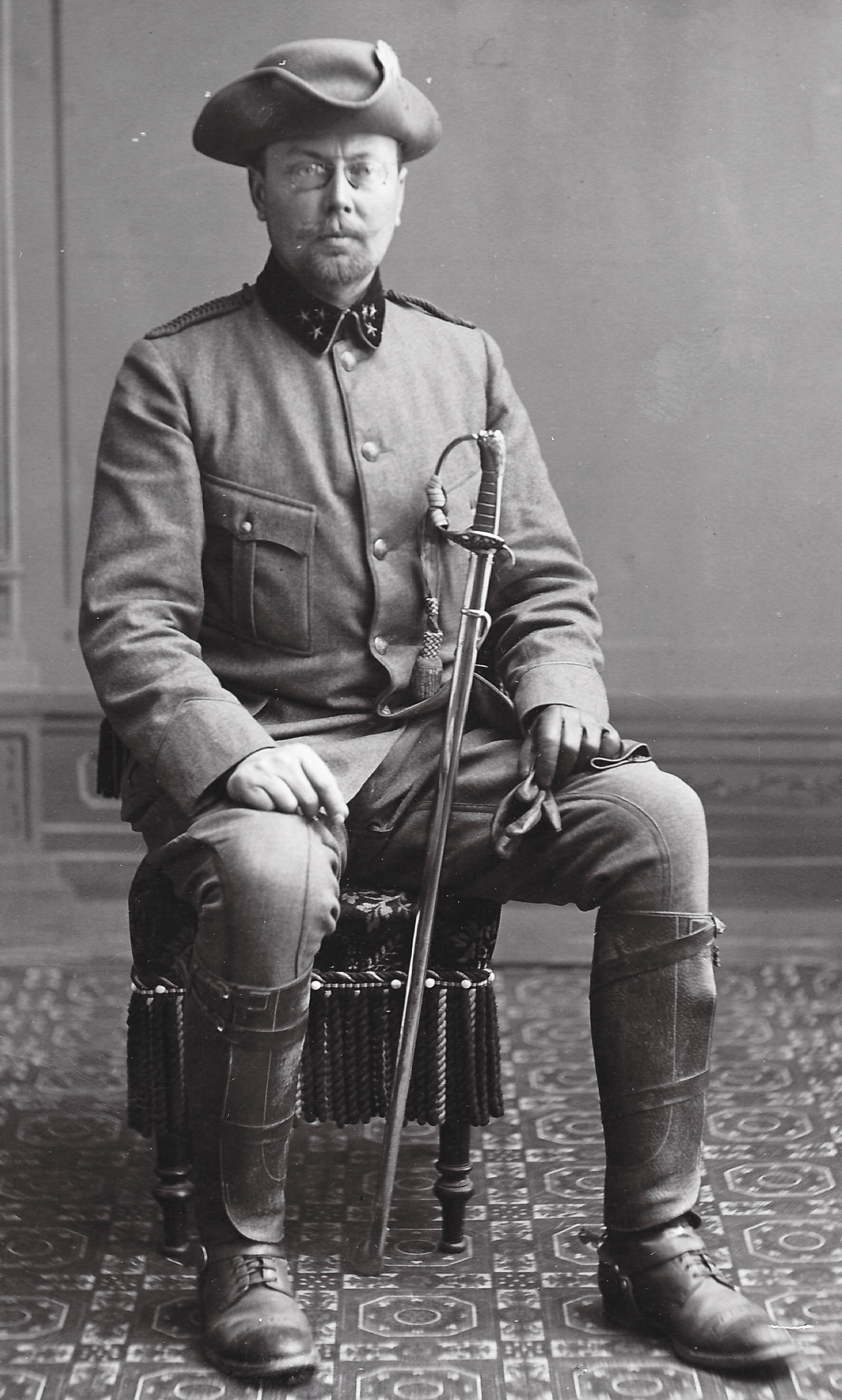 Josef Hammar photographed in Hiroshima in December 1904